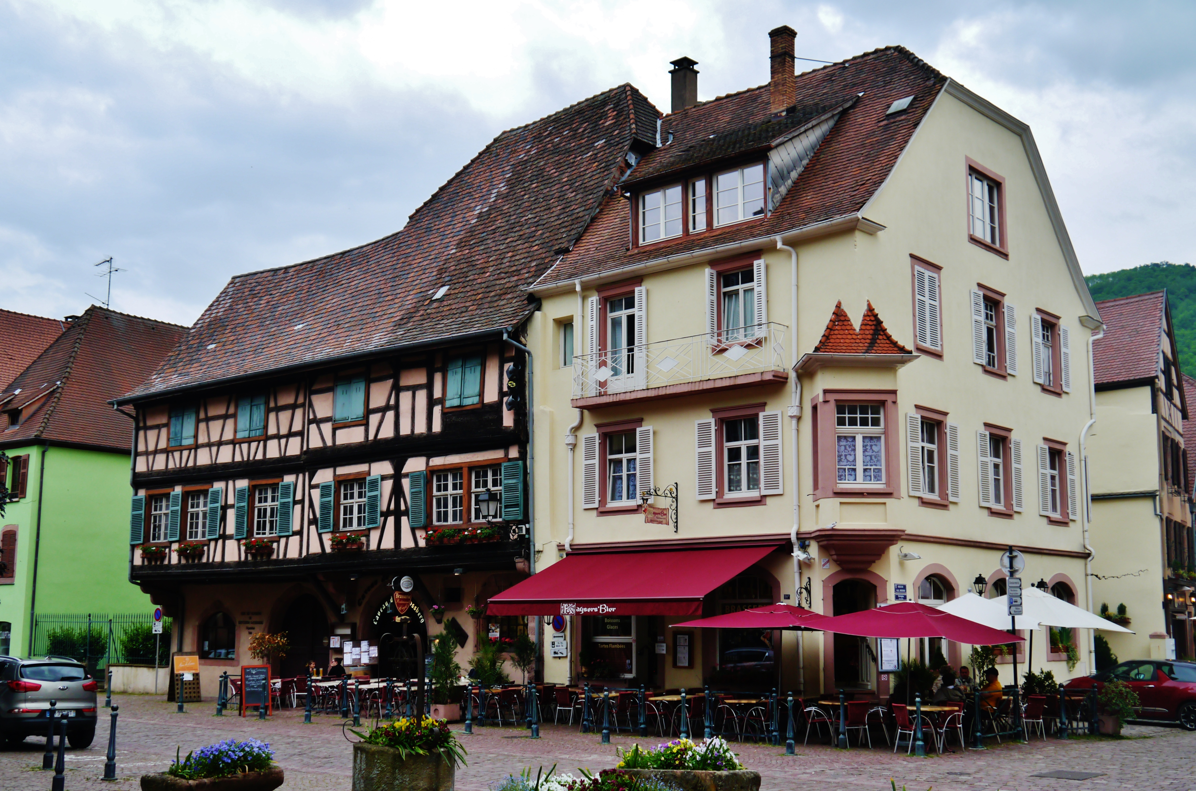 Old Town of Kaysersberg, Alsace, France